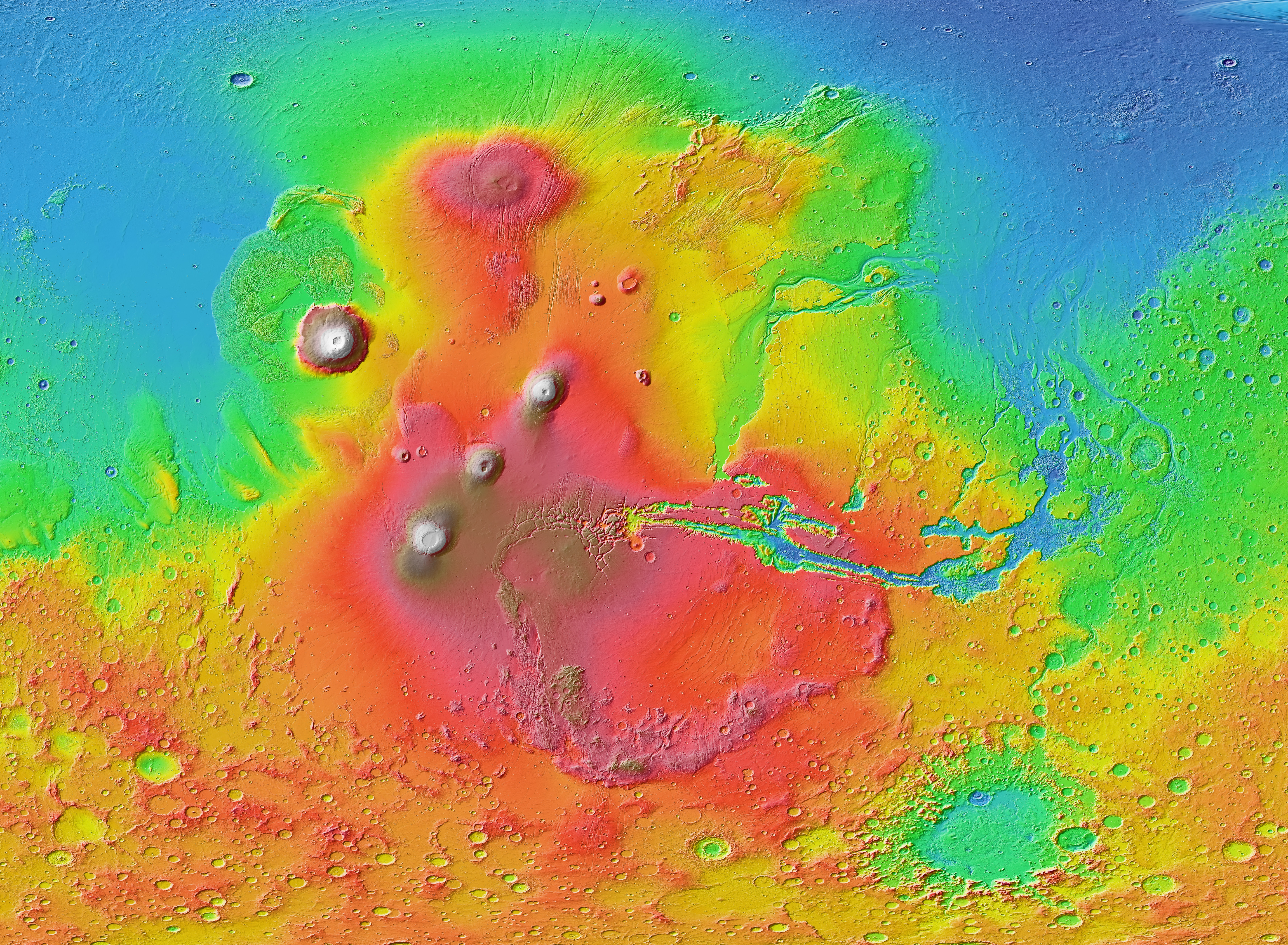 Mars Orbiter Laser Altimeter (MOLA) colorized topographic map of the western hemisphere of Mars, showing the Tharsis and Valles Marineris regions. The impact basin Argyre is at lower right. Many of the features on this map are annotated in Wikimedia Commons.